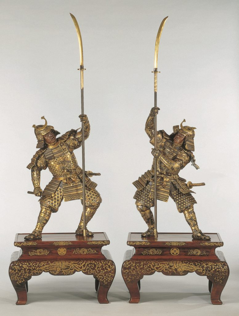 Pair of Samurai Figures, Japan, 1890.From the Nasser D. Khalili Collection of Japanese Art of the Meiji Period.